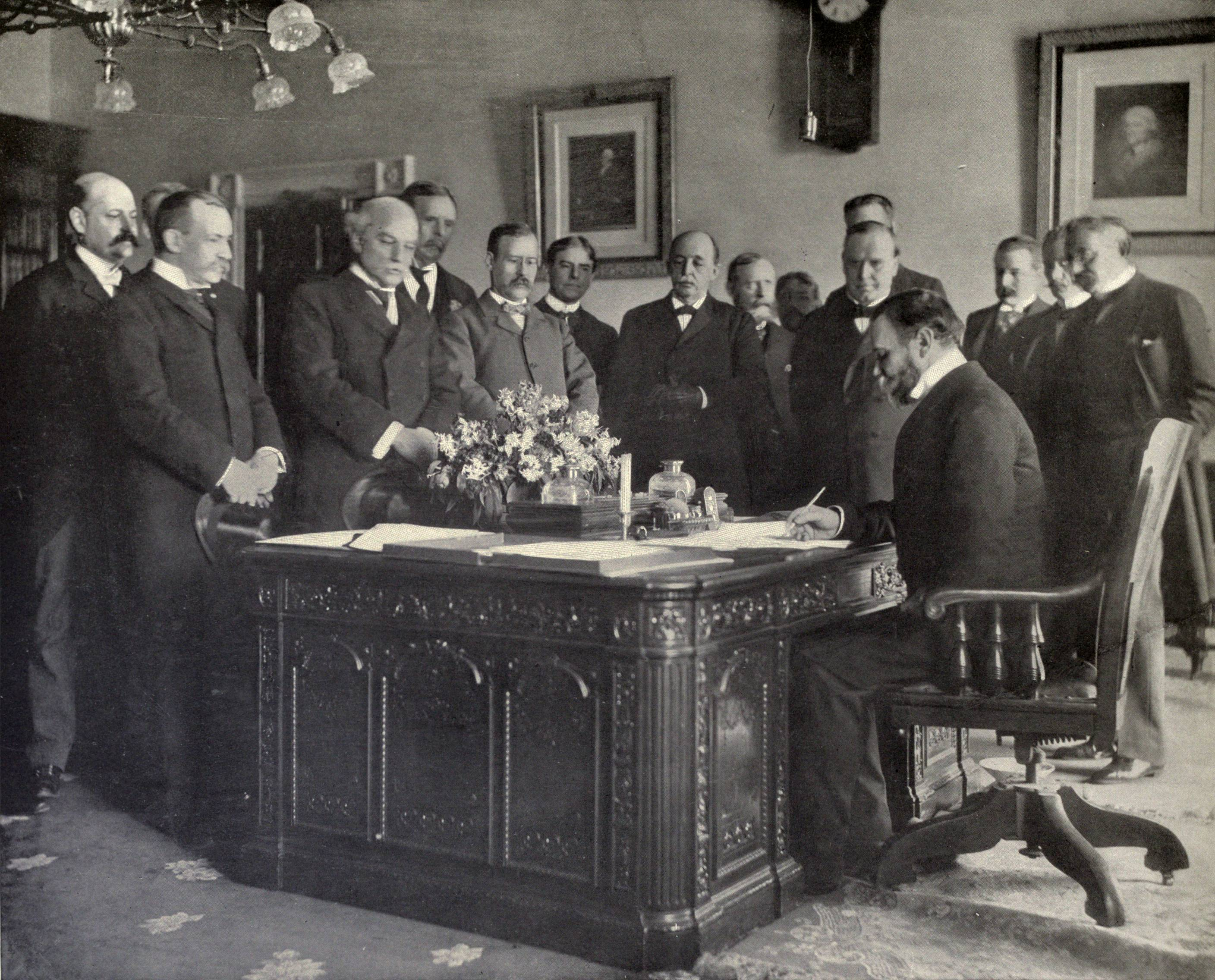 John Hay, Secretary of State, signing the memorandum of ratification on behalf of the United States, from p. 430 of Harper's Pictorial History of the War with Spain, Vol. II, published by Harper and Brothers in 1899.